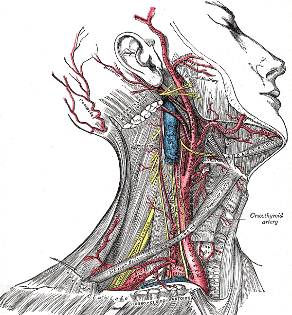 Arteries of the neck - right side. The external carotid artery arises from the common carotid artery - labeled Common caroti on the figure.